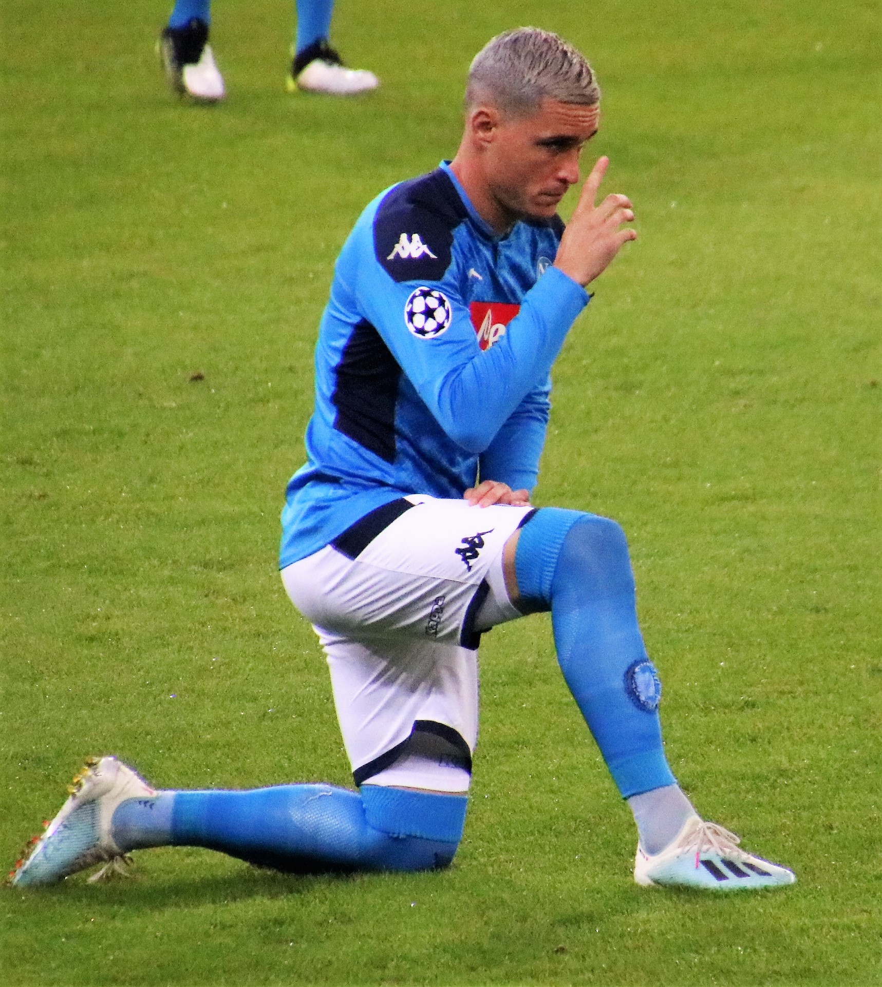 3rd round UEFA Champions League